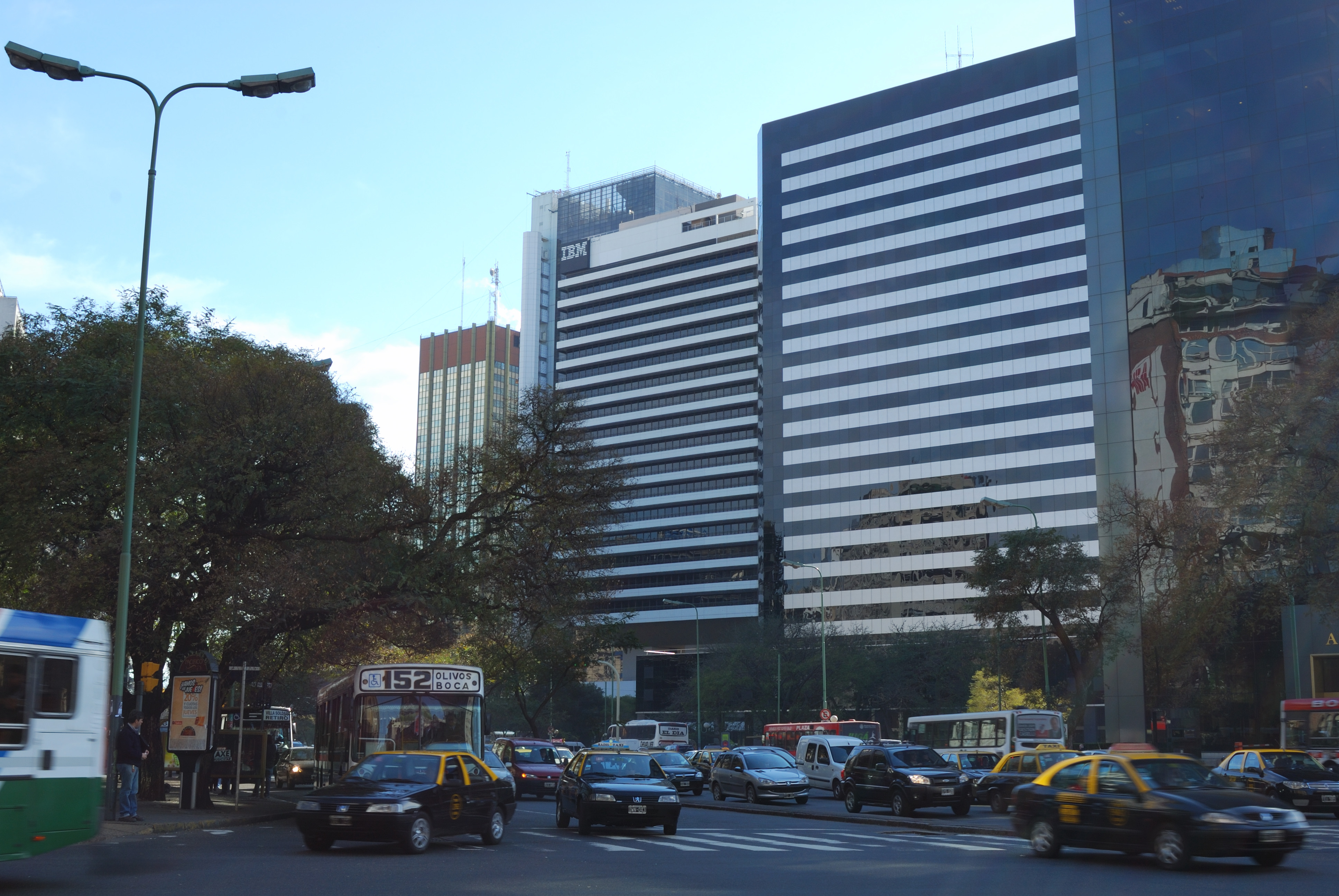 Catalinas Norte business park, on Leandro Alem Avenue, Buenos Aires.